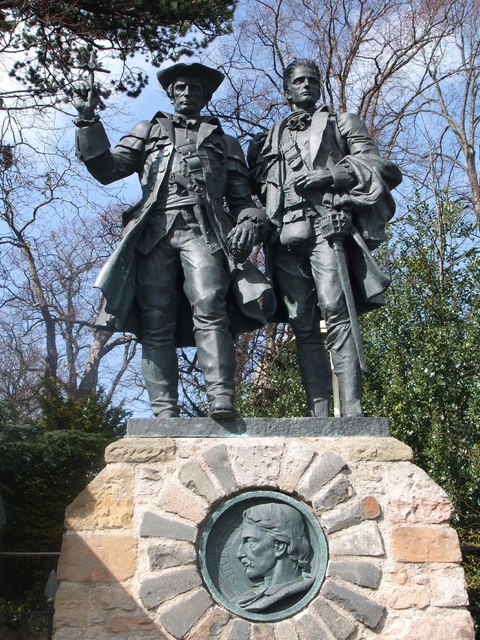 Statue of Alan Breck & David Balfour This statue of the heroes in Robert Louis Stevenson's novel, "Kidnapped" by the sculptor Sandy Stoddart, stands on the N side of Corstorphine Road near 'Rest and Be Thankful' where they parted at the end of the novel. Alan Breck is based on a historical character and novel set around real events'